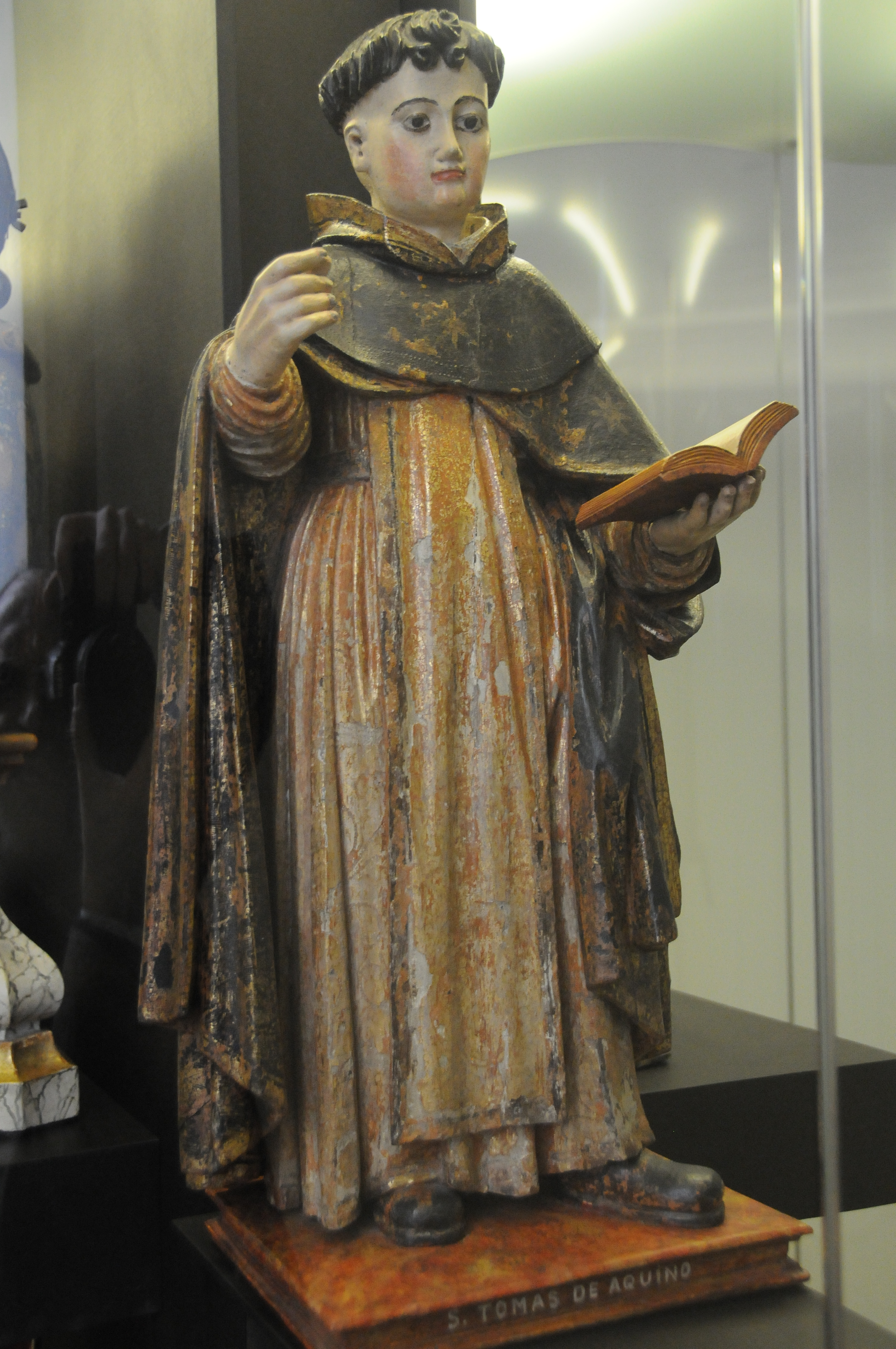 Saint in Interior of Raio Palace, Braga, Portugal.